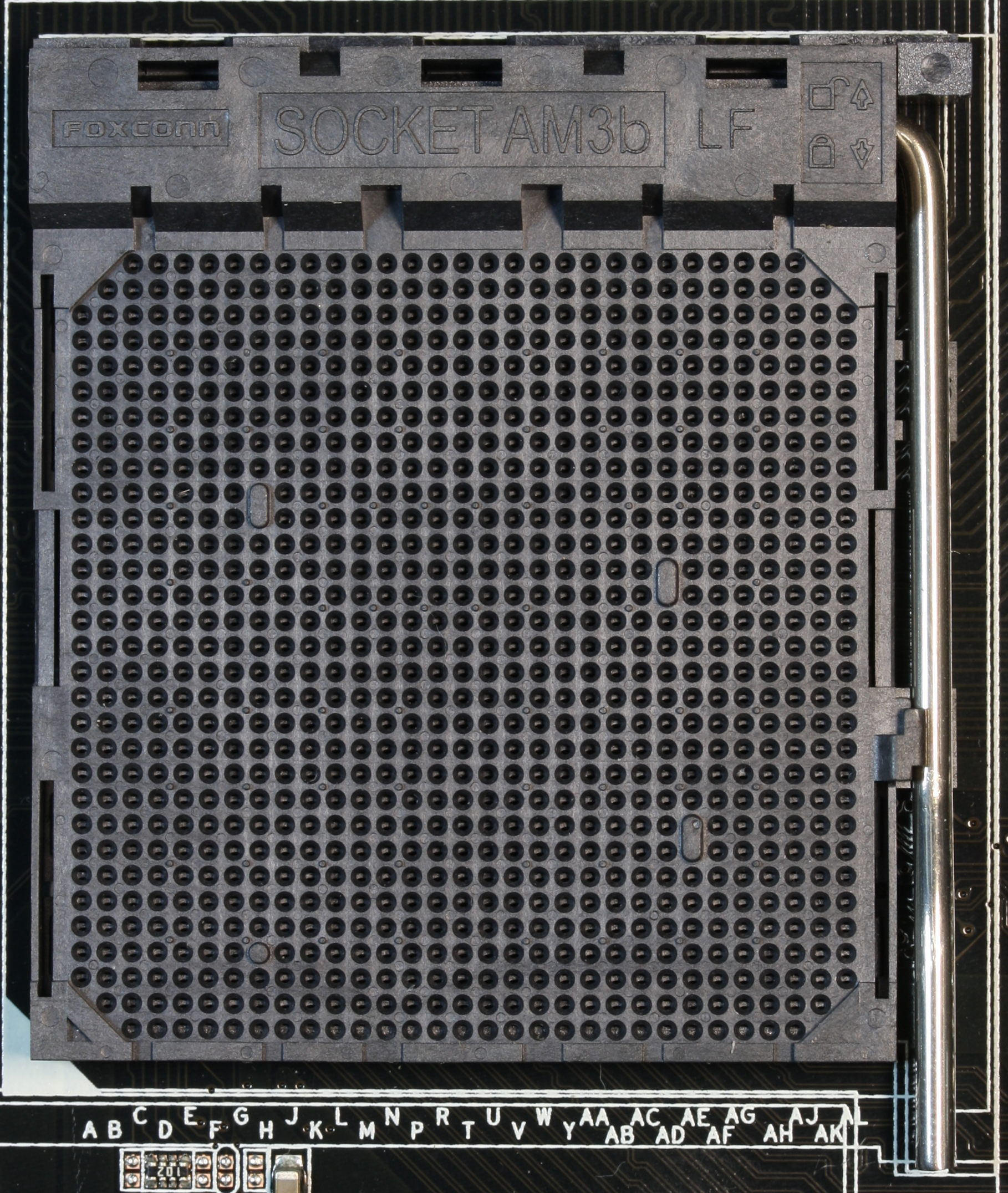 The top side of a closed AM3+ CPU socket